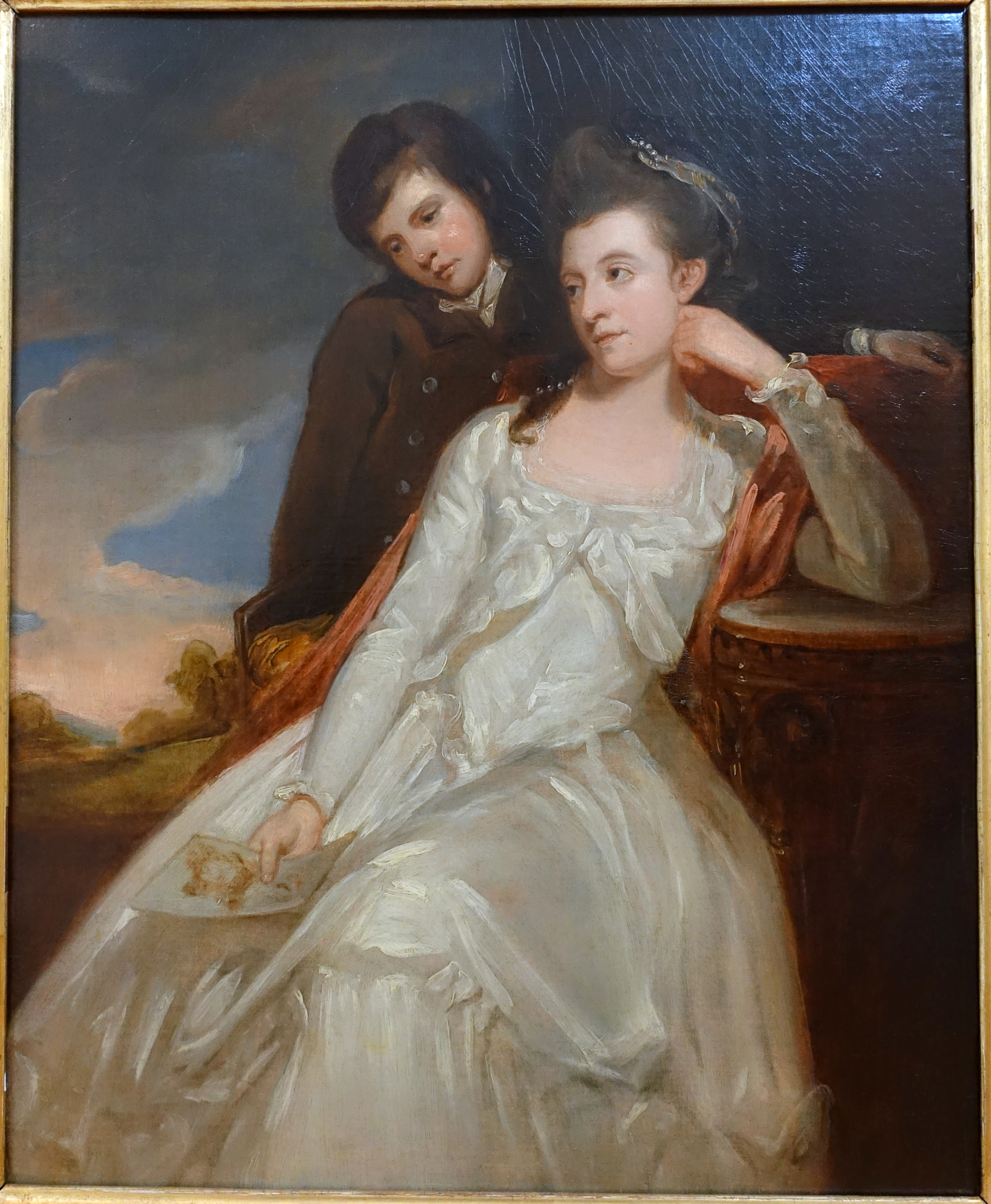 Exhibit in the Krannert Art Museum, University of Illinois at Urbana-Champaign - Urbana-Champaign, Illinois, USA. This work is old enough so that it is in the public domain.